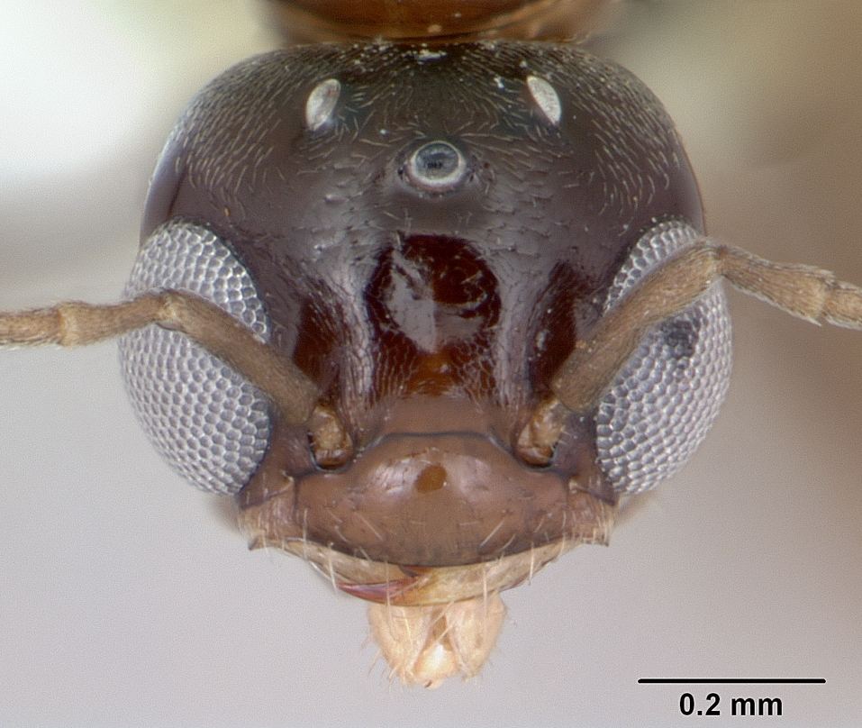 Head view of ant Dorymyrmex brunneus specimen casent0173845.